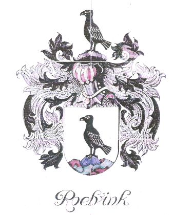 Coat of Arms of Roelvink